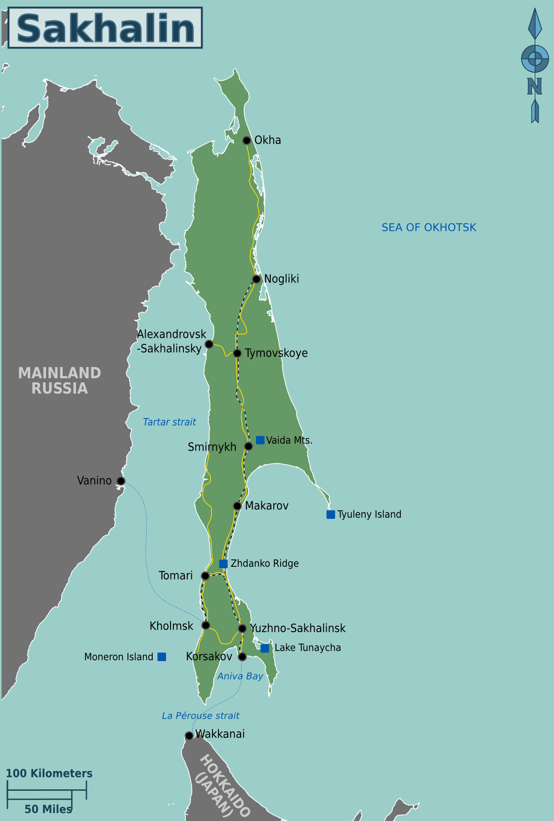 Map of Sakhalin (Russia) for use on Wikivoyage, English version